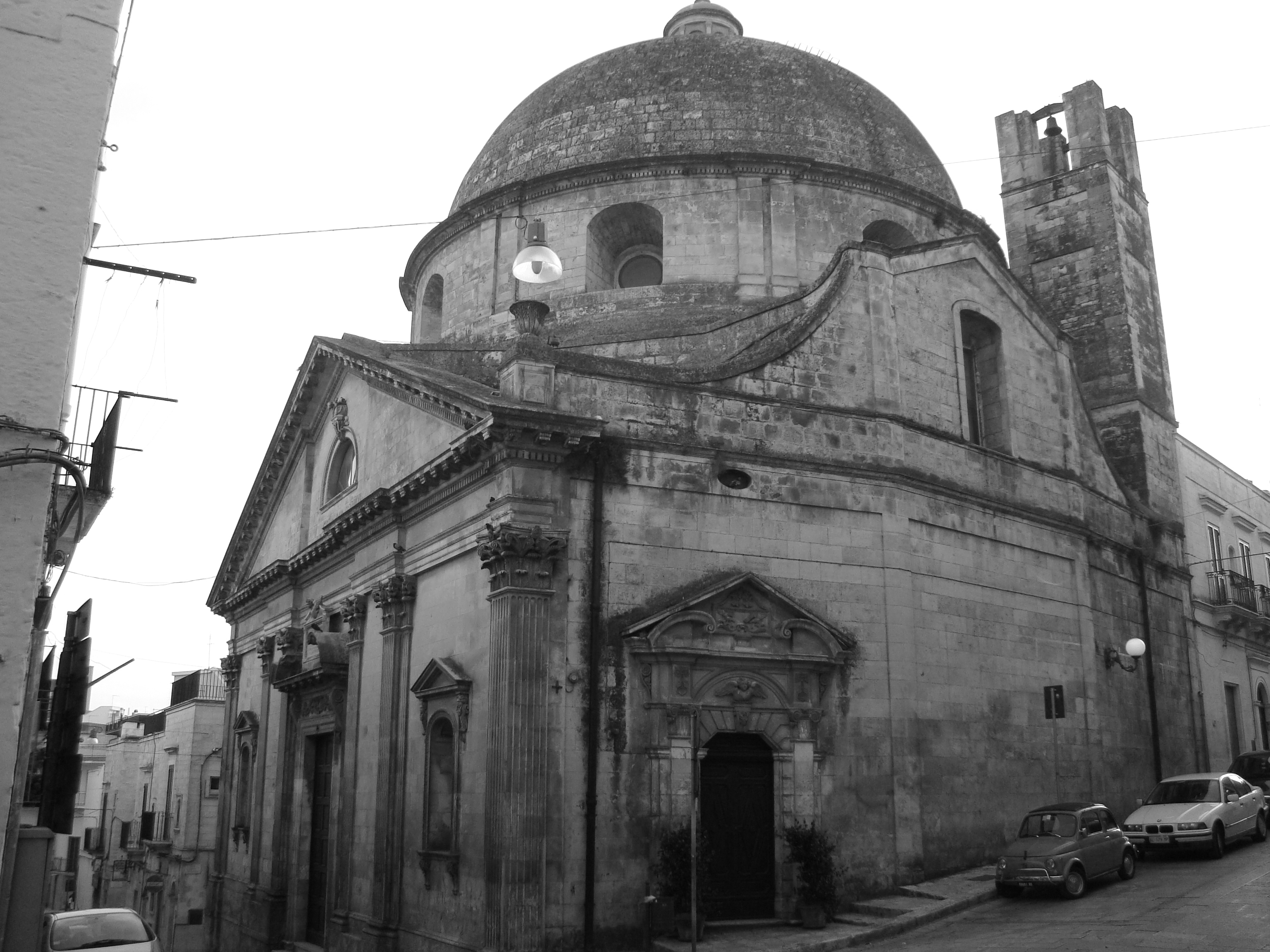 Church in Ceglie Messapica